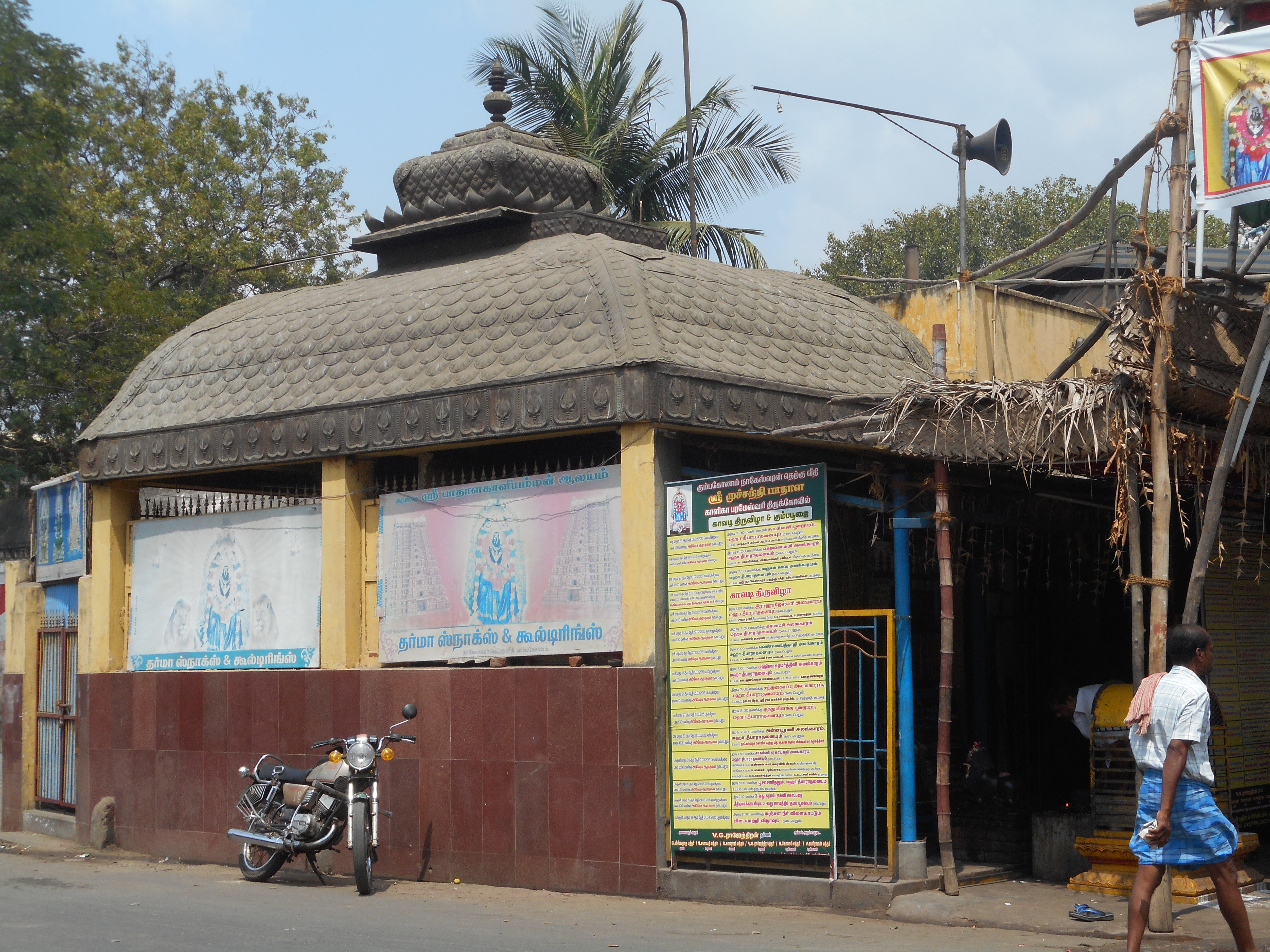 கும்பகோணம் முச்சந்தி பாதாள காளியம்மன்கோயில் Kumbakonam Mucchandi badalakaliamman temple